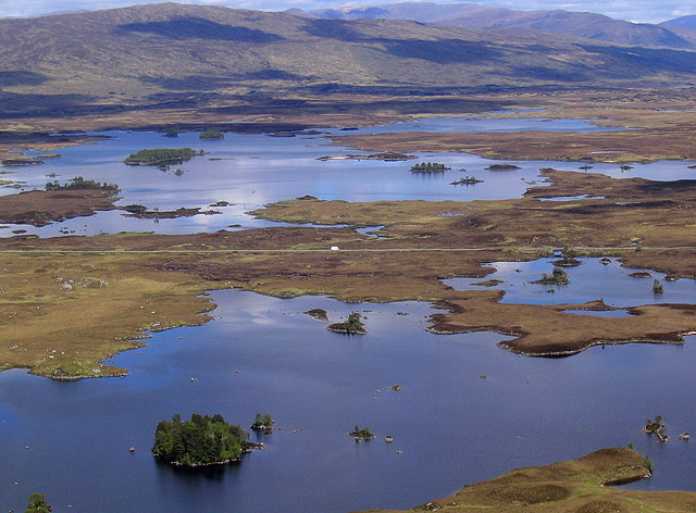 Lochan na h-Achlaise This view from Meall Mor shows Lochan na h-Achlaise in the foreground with Loch Ba in the background. The white van in the centre of the photo is travelling southeast on the A82.